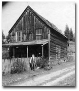 Pierce Courthouse. Constructed in 1862.